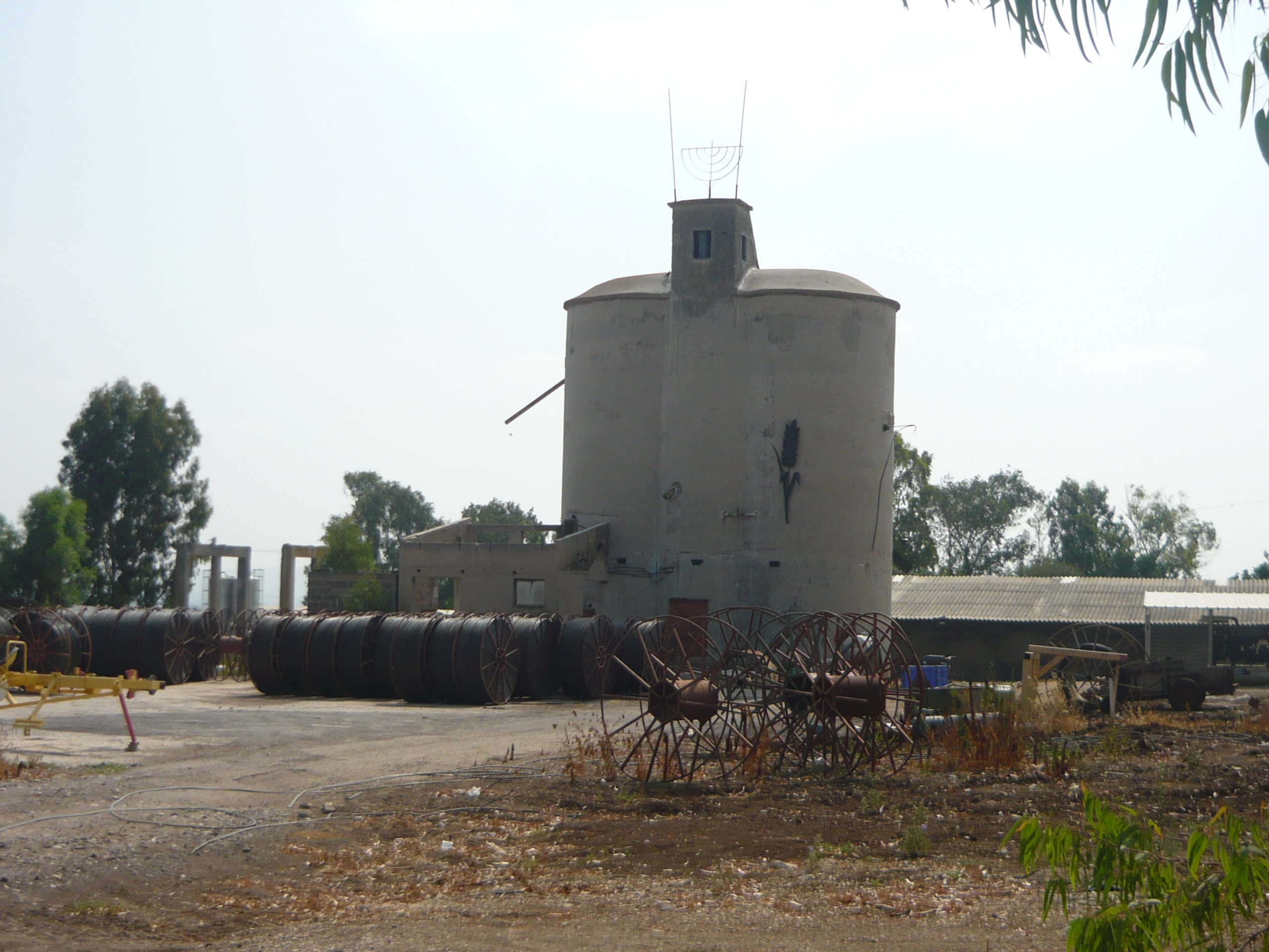 silo in kibbutz dovrat סילו בקיבוץ דברת